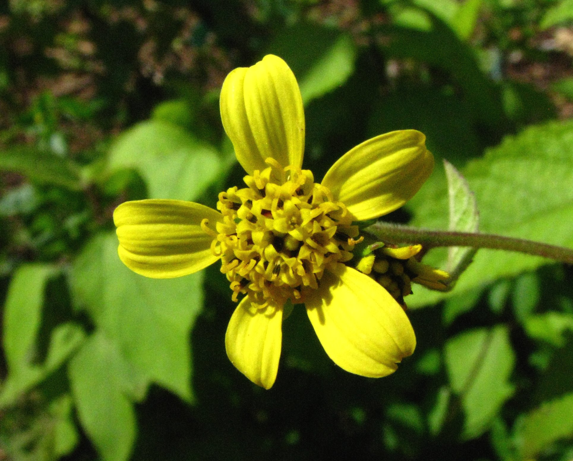 Nehe Asteraceae Endemic to the Hawaiian Islands (Kauaʻi only) Endangered Kauaʻi (Cultivated)